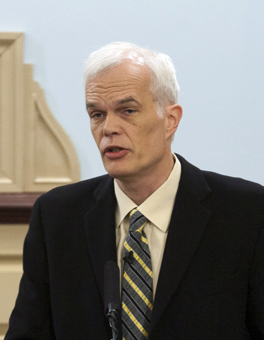 Richard Brookhiser discussing his book James Madison at the Miller Center in Charlottesville, Virginia, December 9, 2011